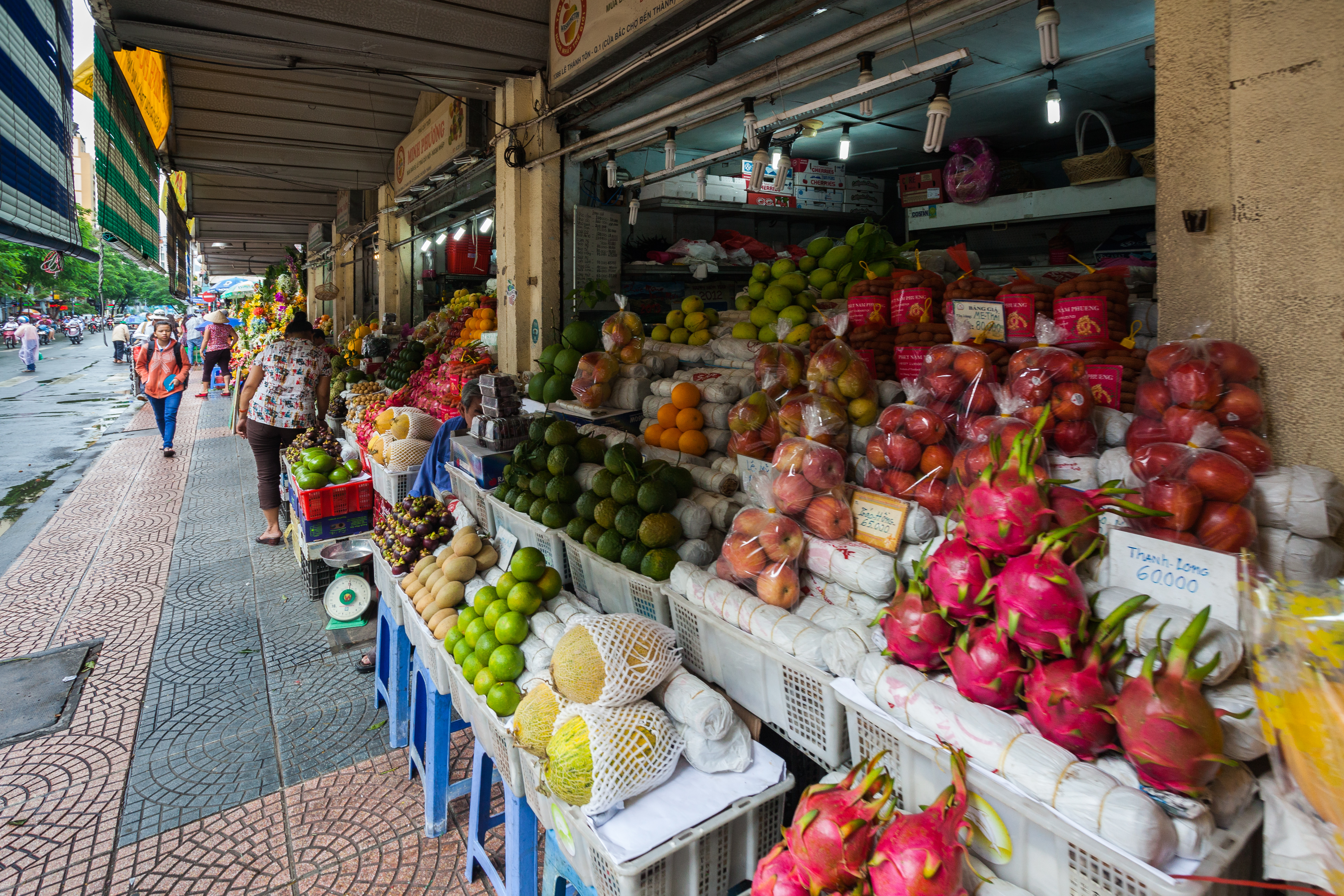 Ben Thanh Market, Ho Chi Minh City, Vietnam